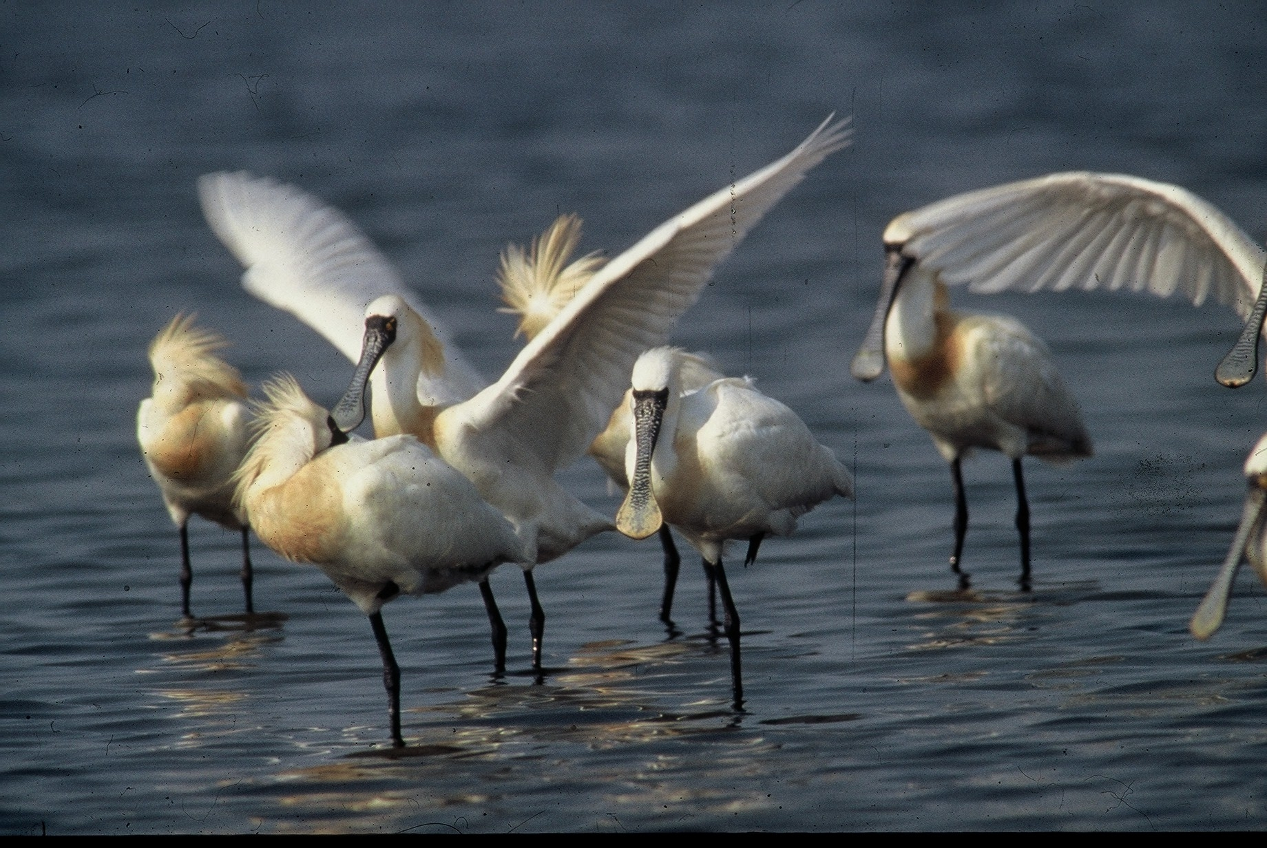 A group of black-faced spoonbills in Xuan Thuy National Park, Vietnam.